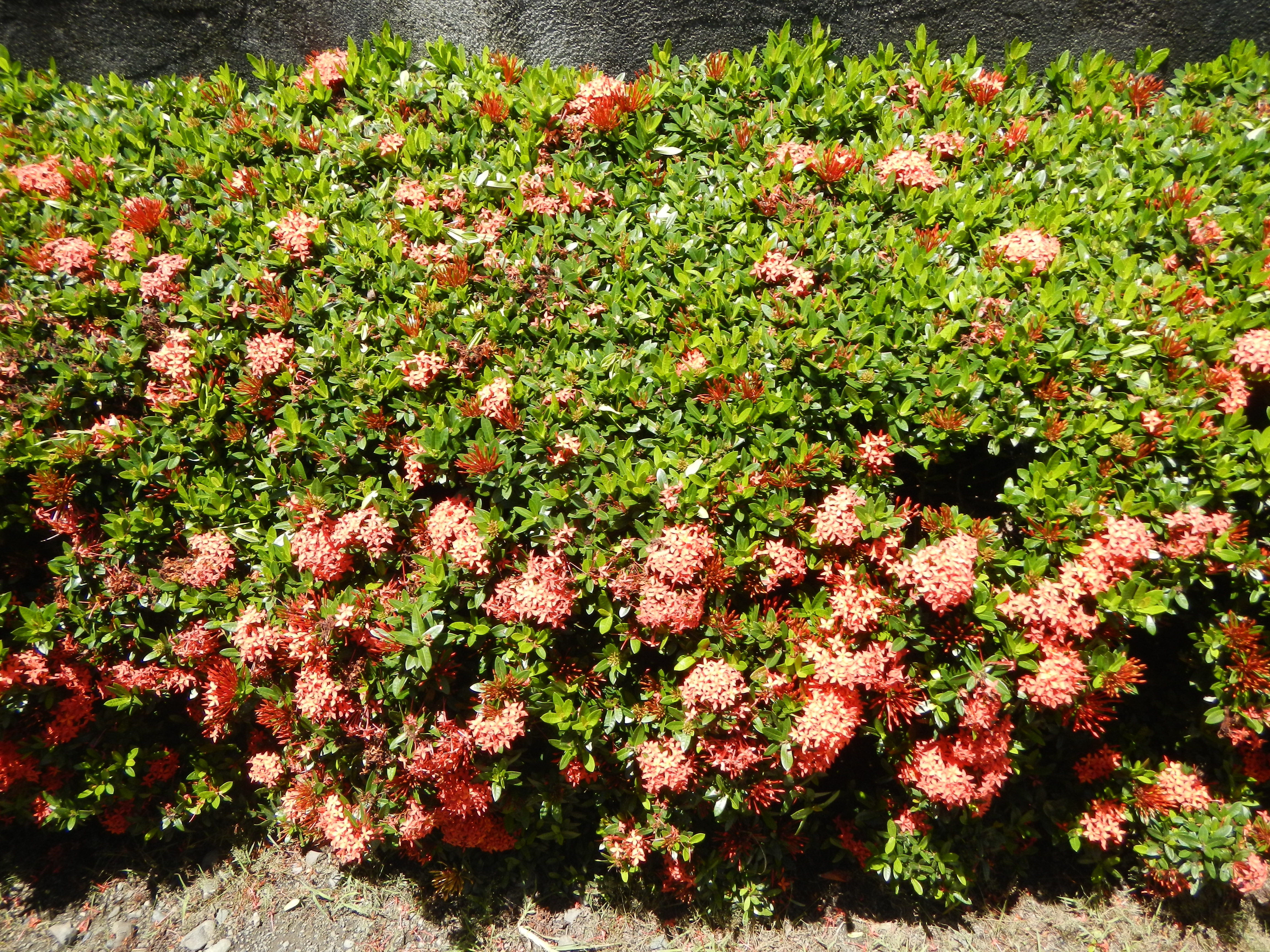 Barangay Malamig, Bustos, Bulacan scenery, Santan flowers, Ixora grandiflora Ker Paddy fields in Bulacan, irrigation dikes, creeks, landscapes along the Bustos-Pandi-Angat inner Provincial Roads.